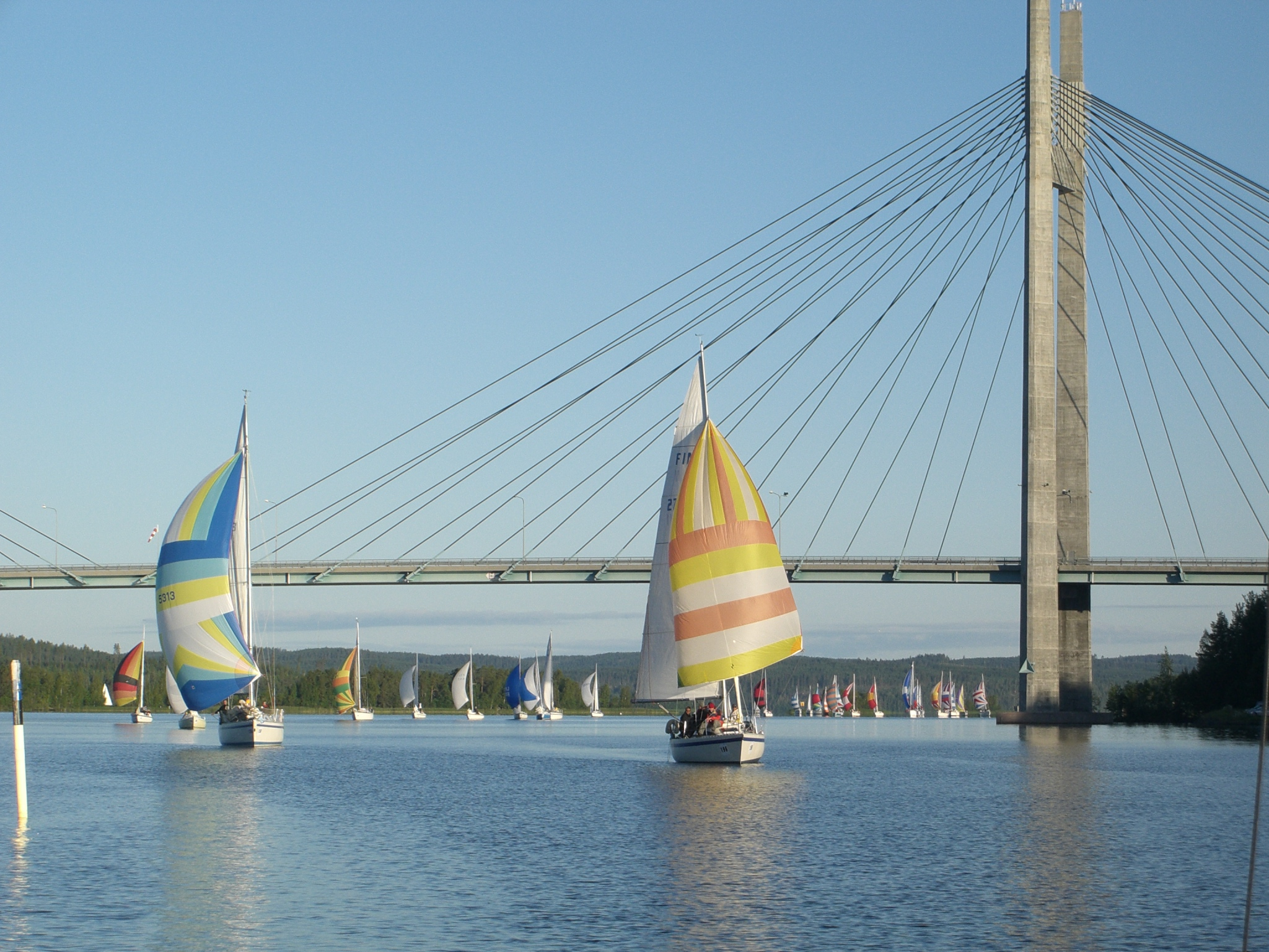 Kärkinen bridge in Jyväskylä, Finland during Päijänne-purjehdus yacht race